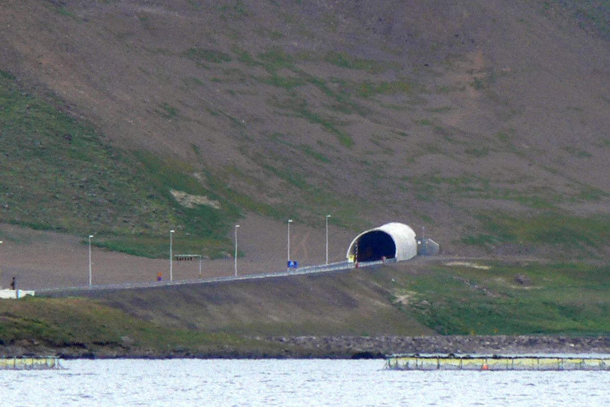 The southeast entrace in Hnífsdalur seen form the other side of the fjord (Ísafjörður).